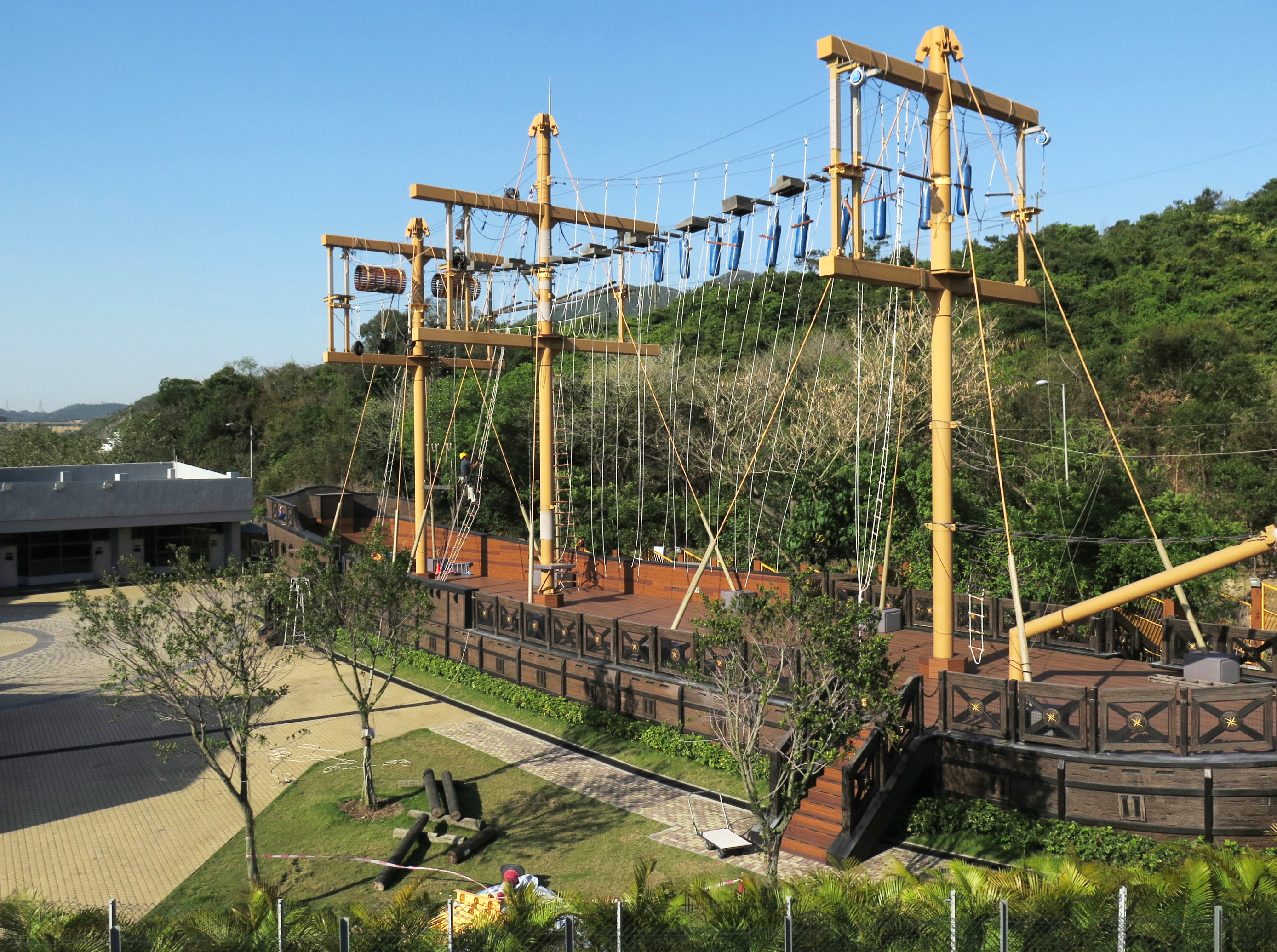 Maritime Service Training Institue